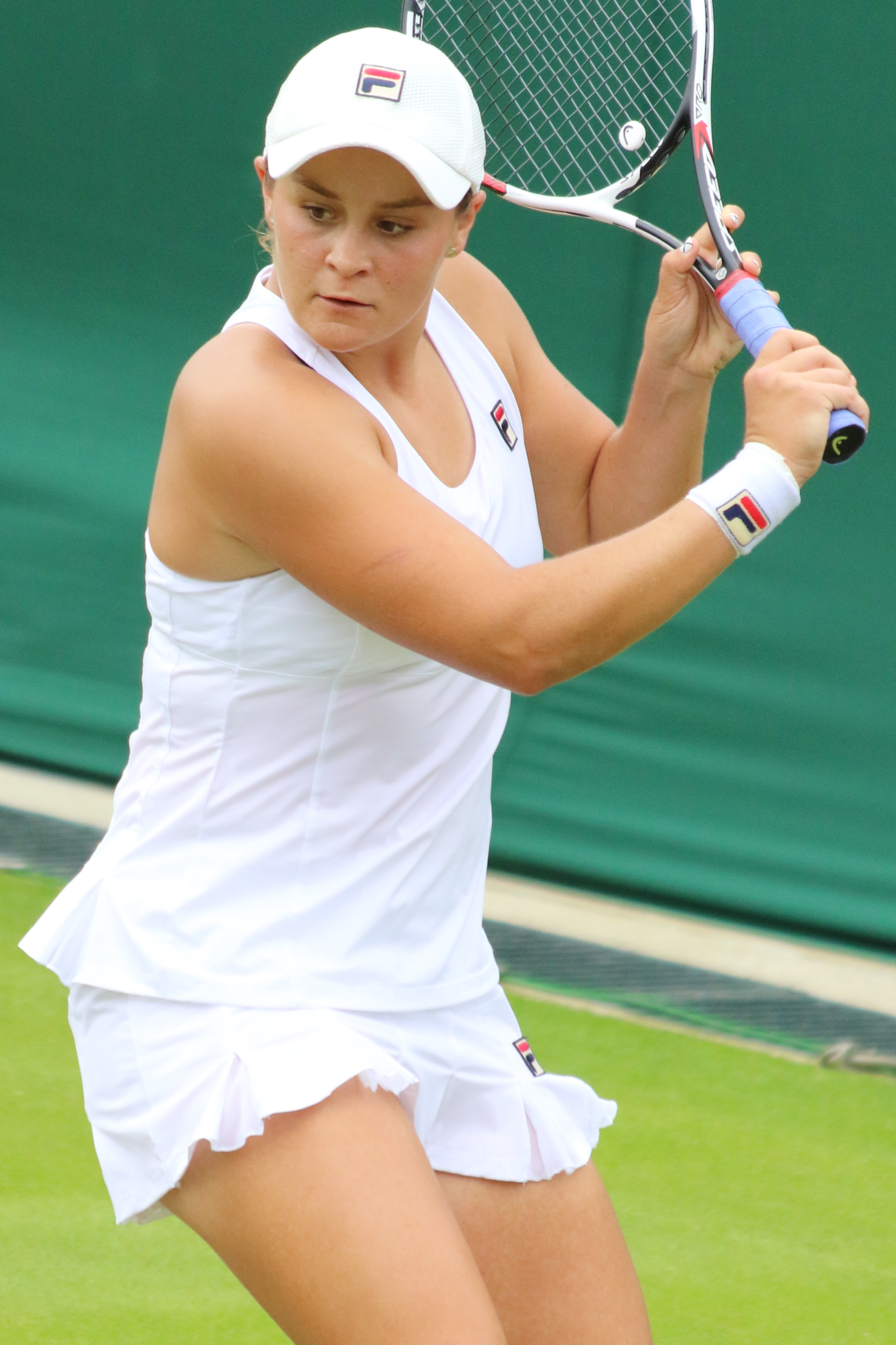 Barty WM17 (6)